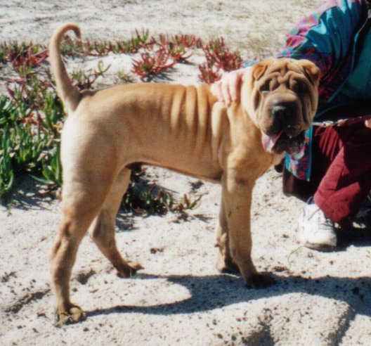 Uploader's Dog Chubby Sergeev ( A Chinese Shar-Pei )